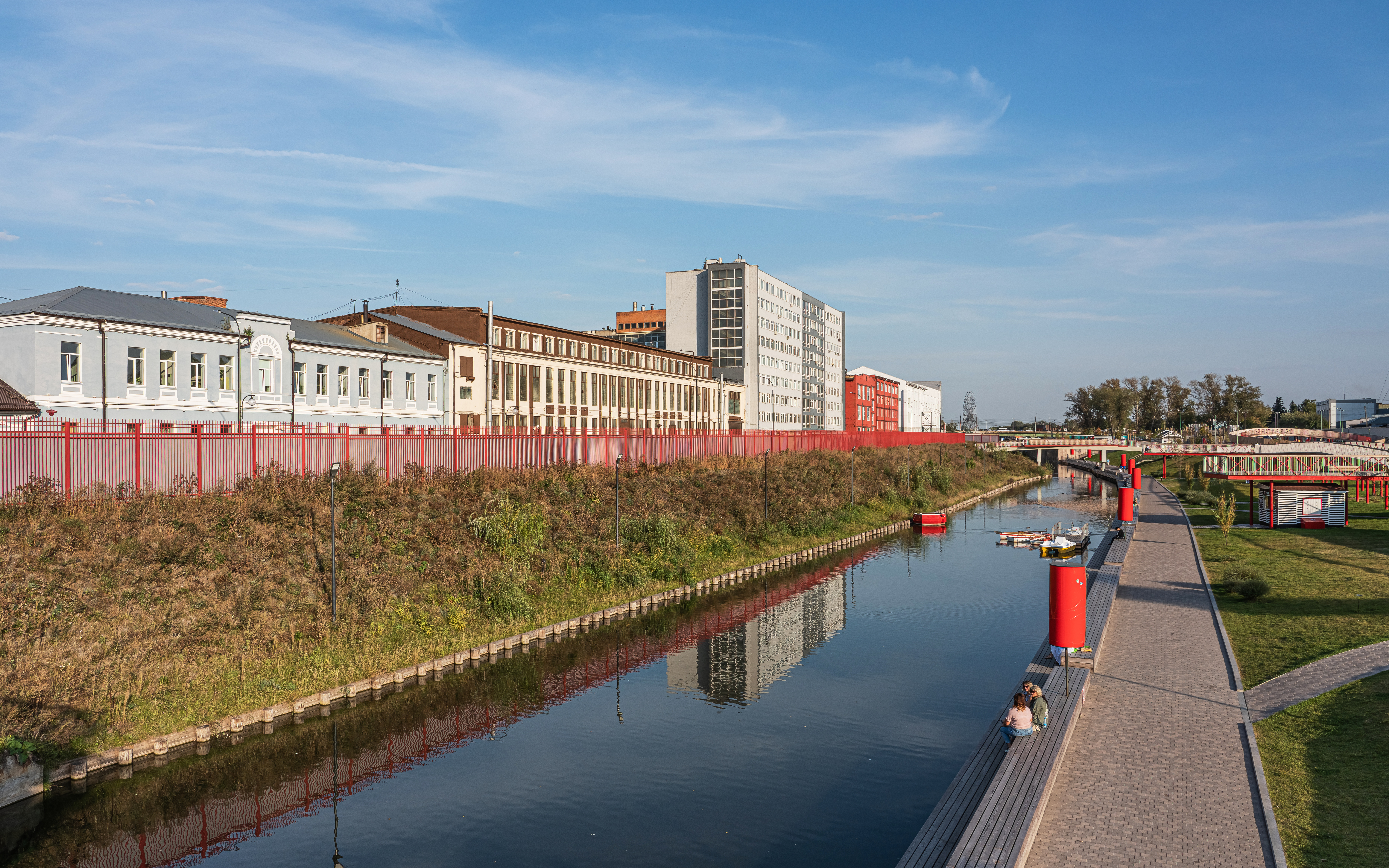 Kazanskaya Embankment (after the 2018 re-design) and, at the left, the Arms Plant (TOZ) in Tula, Russia